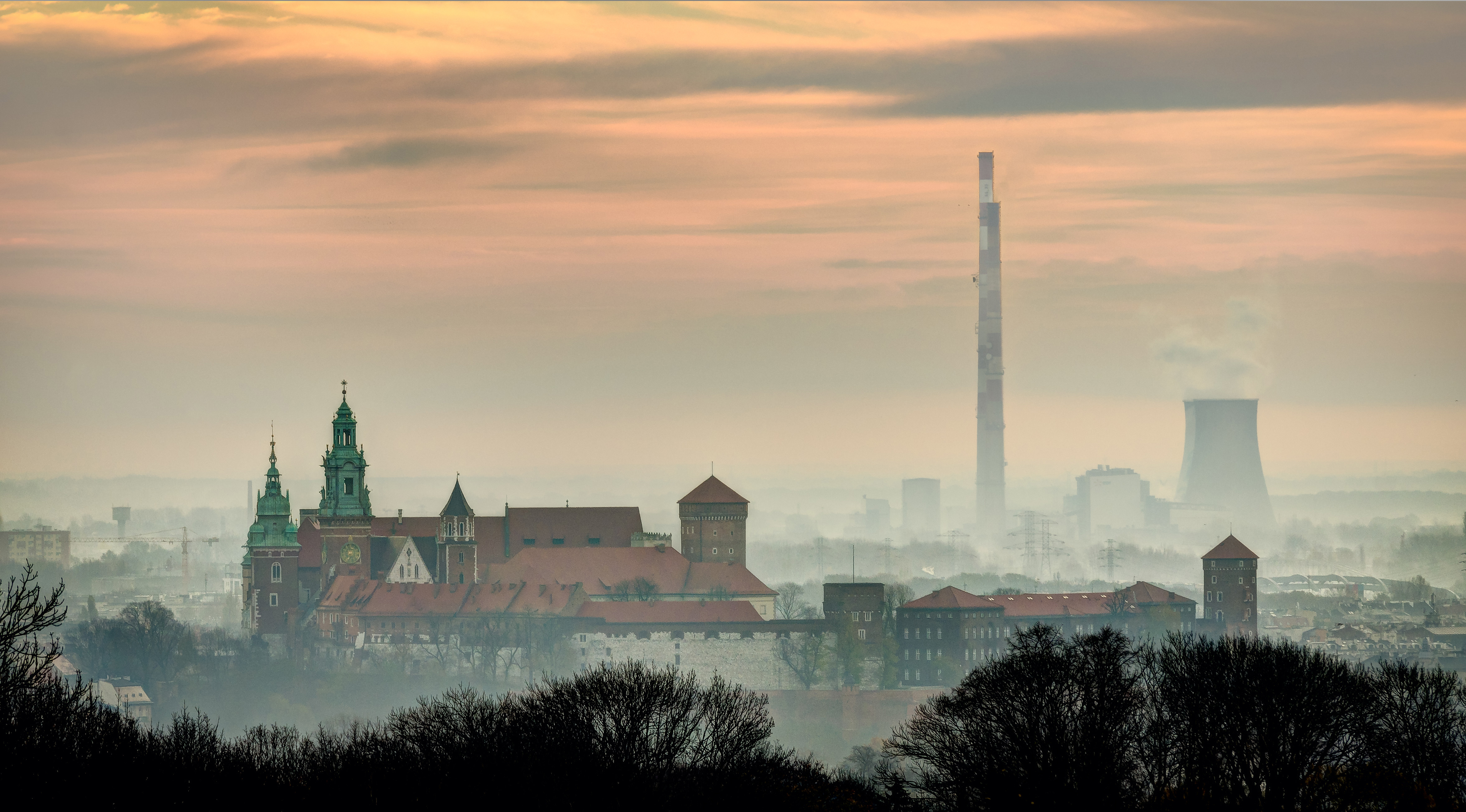 Wawel Hill and Łęg Cogeneration and power plant before sunrise.